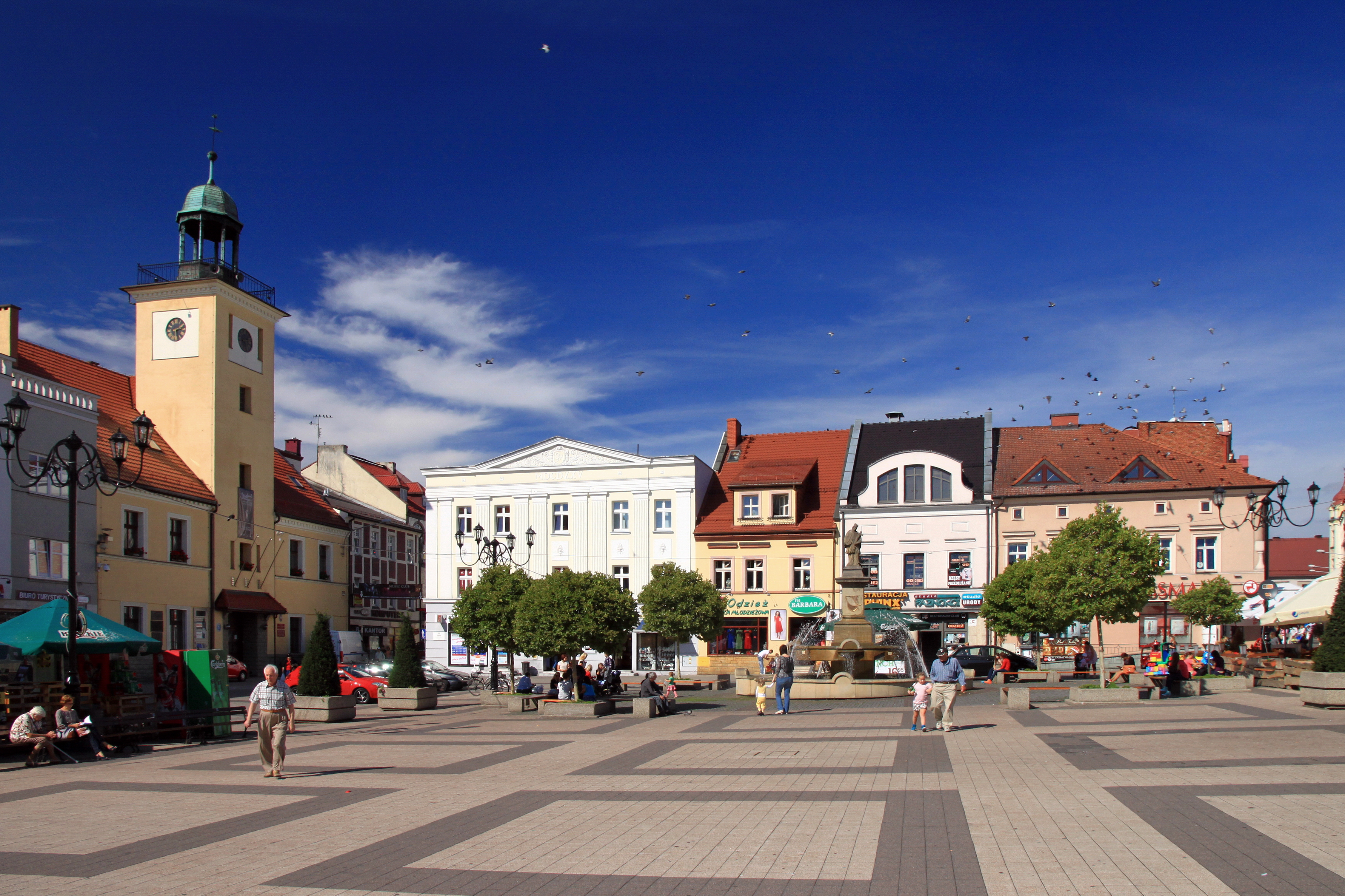 Market Square in Rybnik